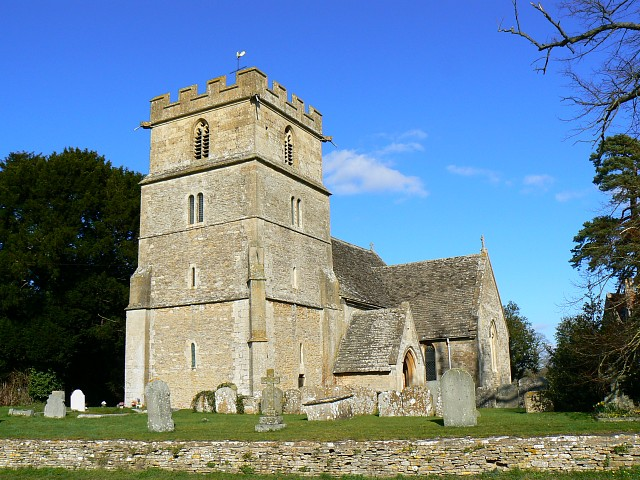 St John the Baptist's parish church, Latton, Wiltshire, seen from the south